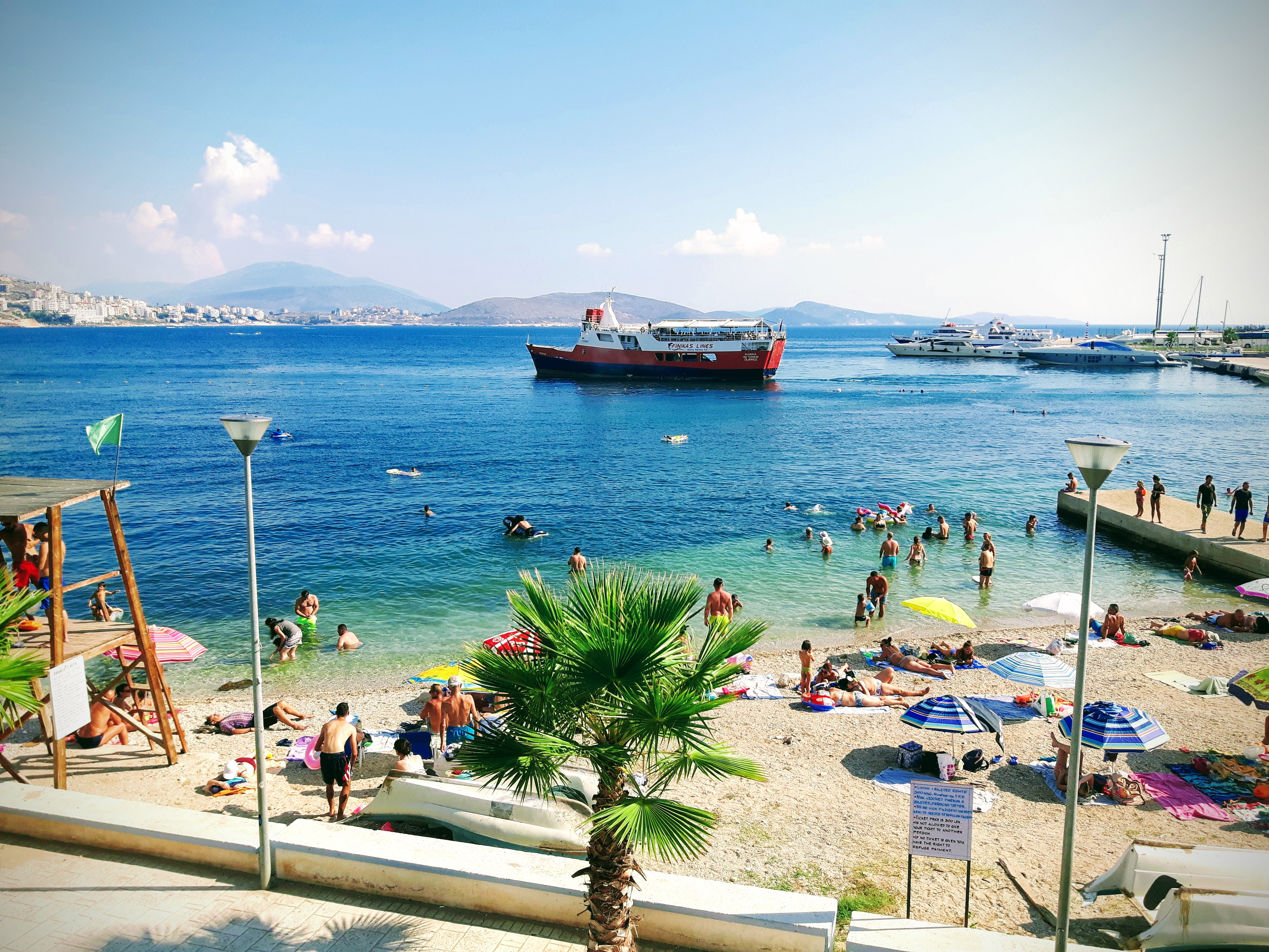 view of seaside and the sea in Sarandë